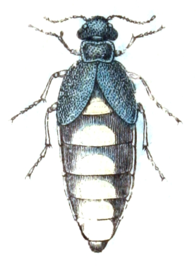 Meloe variegatus, from Calwer's Käferbuch, Table 48, Picture 23. Taxonomy was updated to 2008, using mostly the sites Fauna Europaea and BioLib. Please contact Sarefo if the determination is wrong!